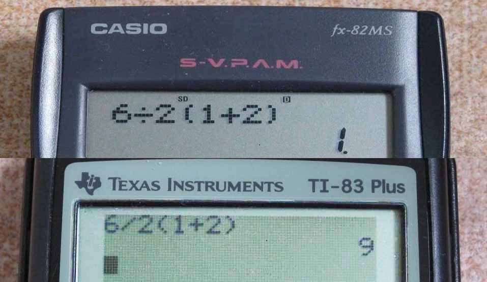 1=6/2(1+2) on two calculators